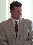 Sergey Katanandov, incumbent president of Karelia